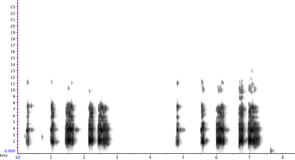 Sonogram of call of Painted Francolin (Francolinus pictus) (two calls). Recorded in Pune, Maharashtra, India.